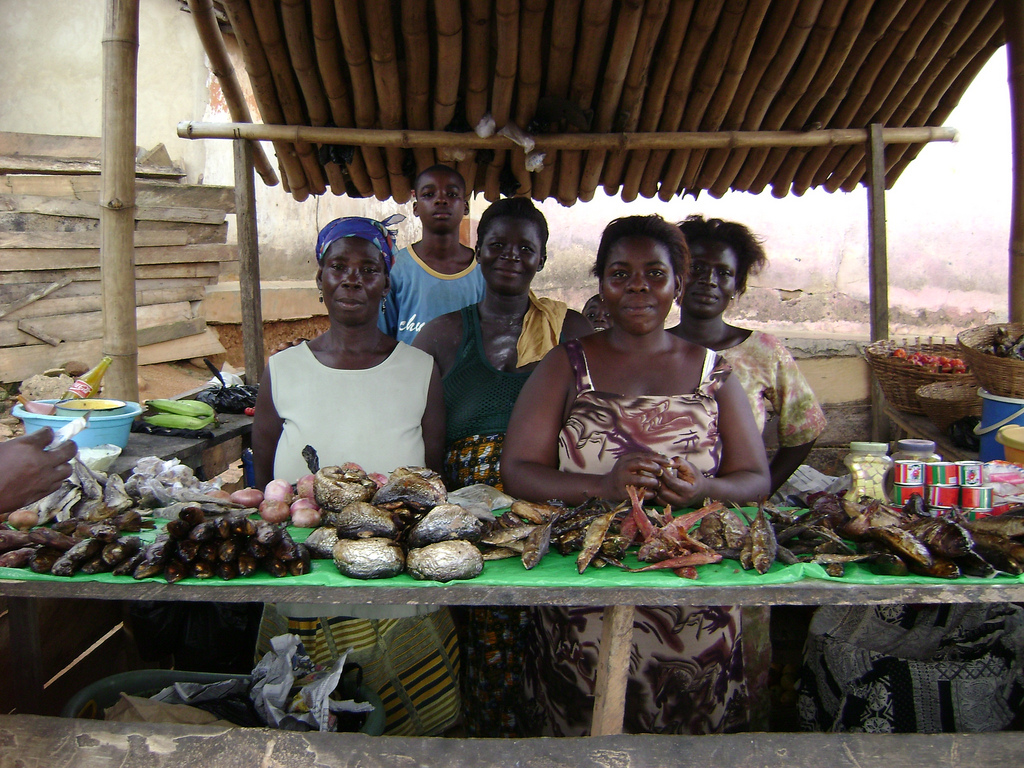 Women on a fishmarket in Nyakrom in Agona District (en), Ghana